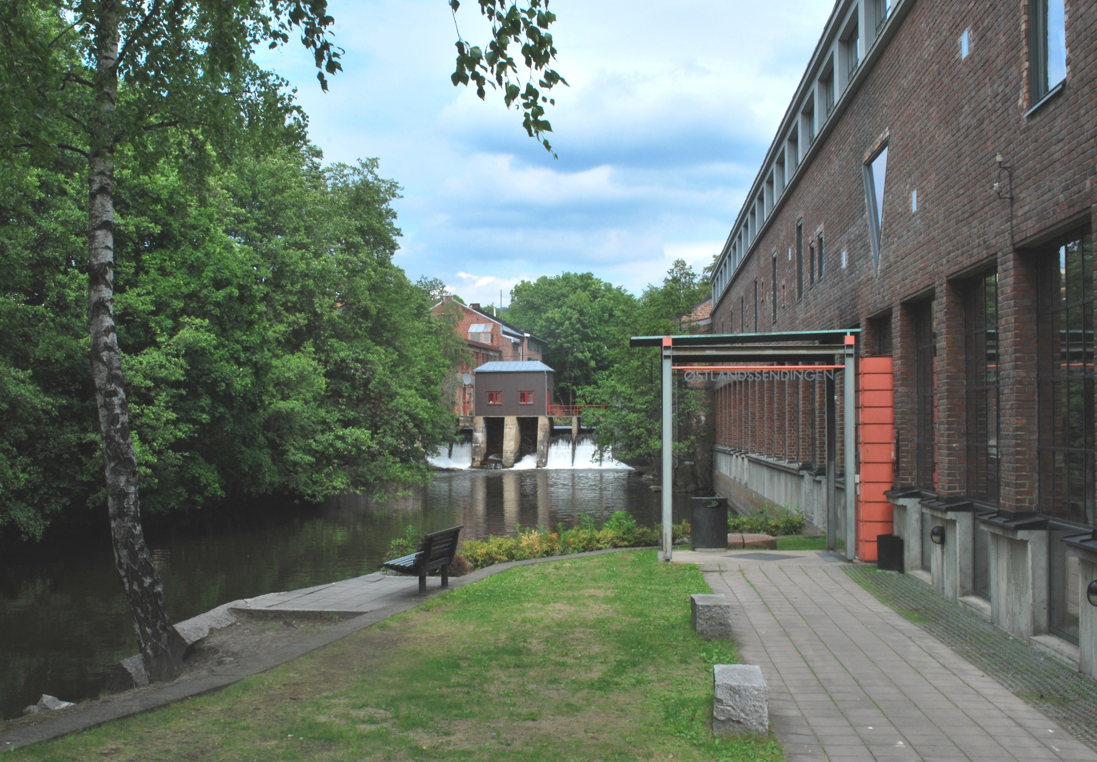 Norsk Rikskringkasting (NRK, Norwegian Broadcasting Corporation), District branch for Oslo and Akershus (Østlandssendingen) Myrens verksted, Sagene neighbourhood, Oslo. Akerselva (Akers River) to the left.